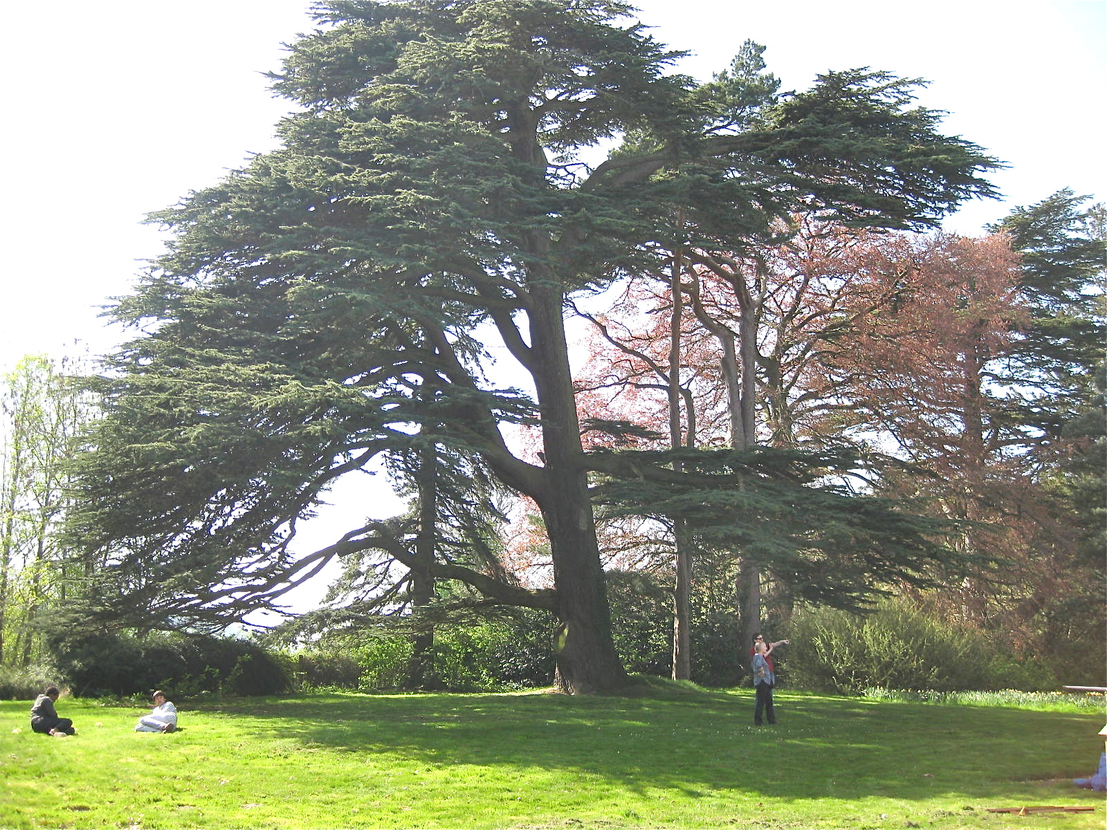 Garthmyl Hall is a Grade II listed house in Berriew, in the historic county of Montgomeryshire, now Powys. Cedar in grounds